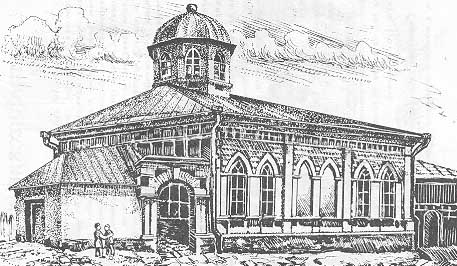 Khoral Synagogue in Mariupol